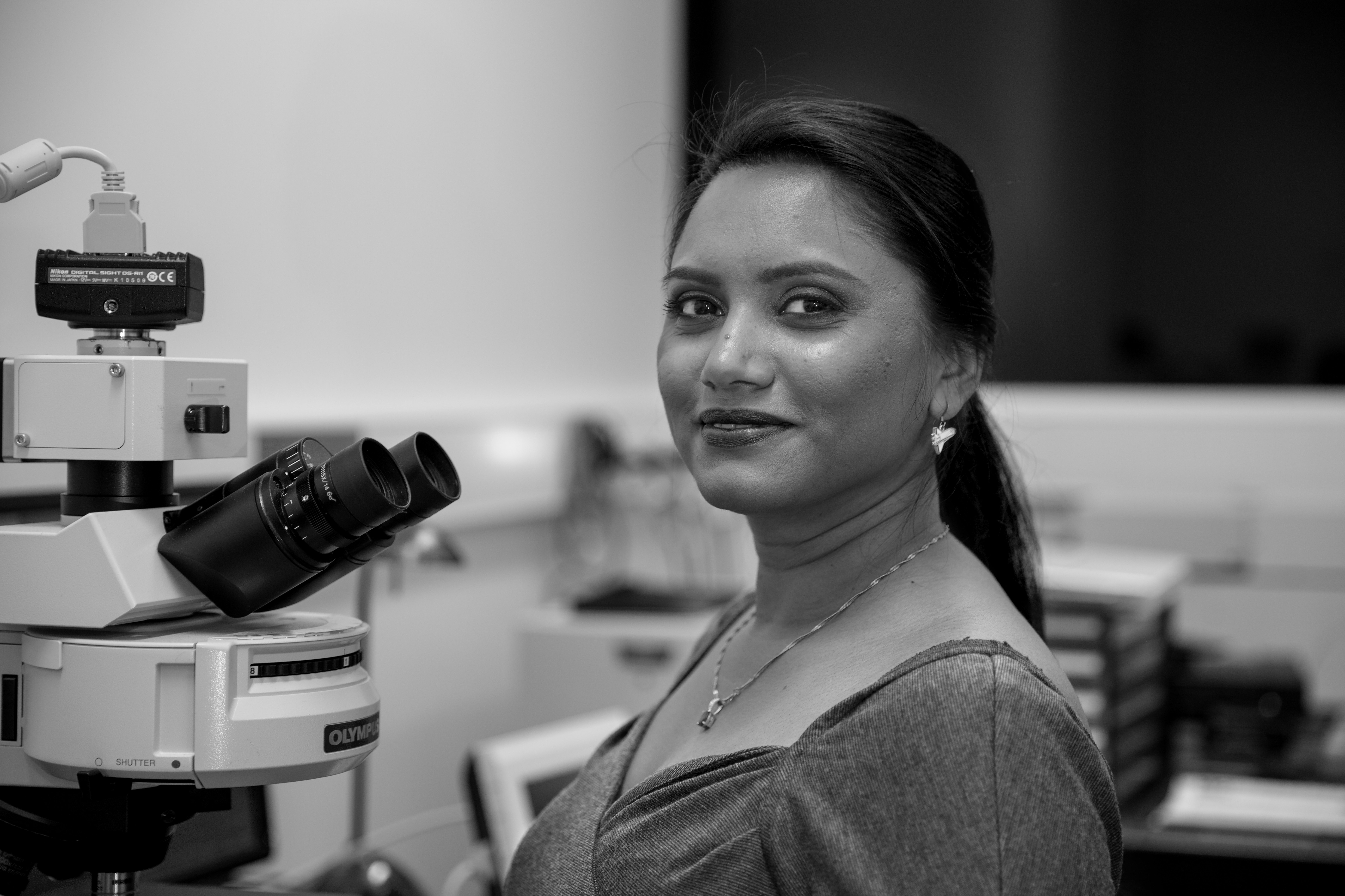 Upulie Divisekera Molecular biologist Upulie Divisekera decided to become a scientist early – at just seven years old. Taken under the wing of Professor Ponammperuma, the former director of NASA Ames, she was granted access, as a kid, to the Institute of Fundamental Studies in Sri Lanka. Divisekera would come to appreciate deeply the importance of making knowledge readily accessible. Her belief that science is for everyone has inspired Divisekera’s ventures in science communication, including as a radio and speaker at TEDx Talks. The molecular biologist credits features of Australia’s culture, like a sense of humour and persistence, with developing her ability to communicate and share science with the world. Photographer: Nathan Fulton, Department of Foreign Affairs and Trade.